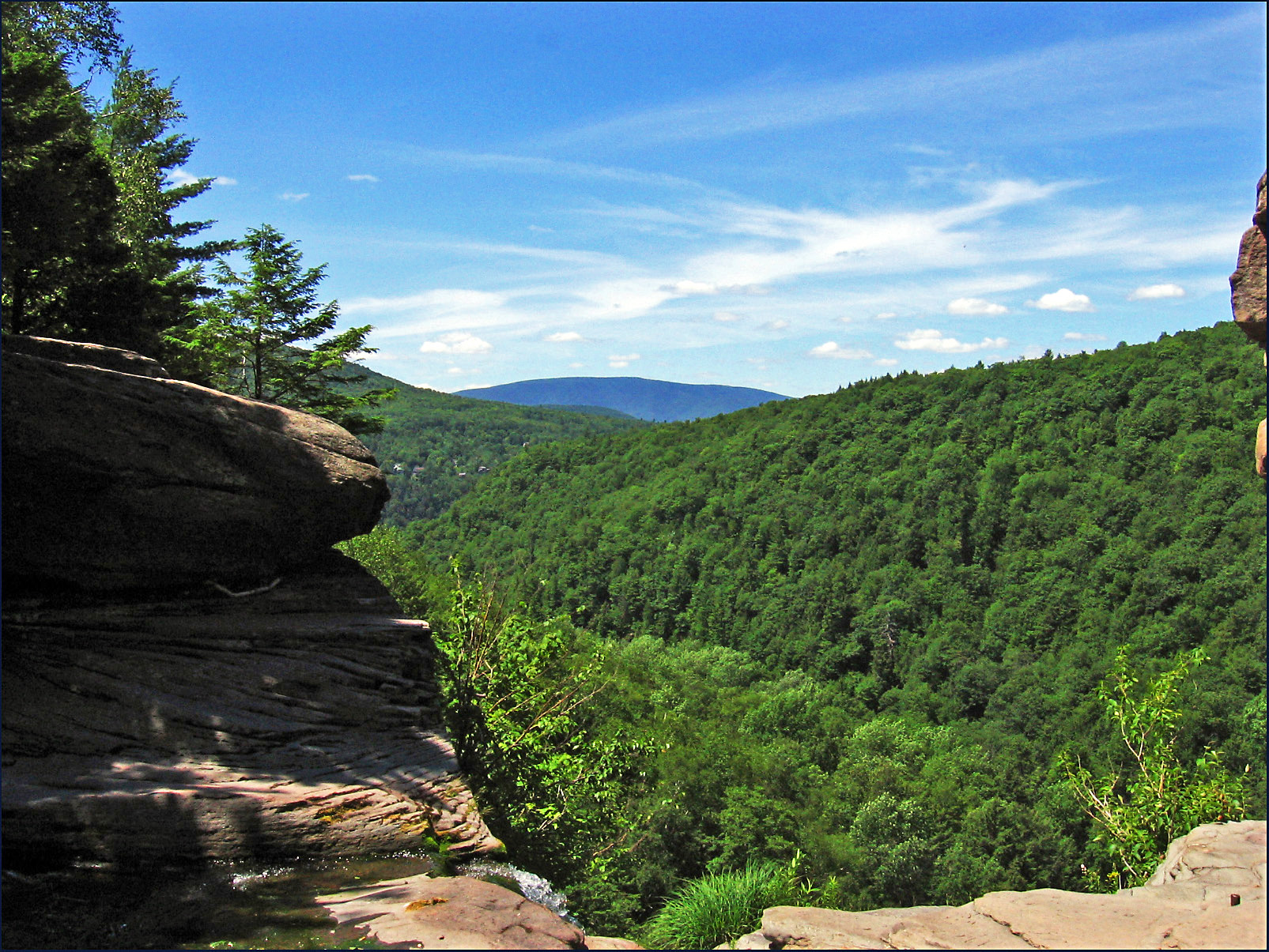 View of Hunter Mountain from the top of Kaaterskill Falls in the Catskill Mountains of New York, USa